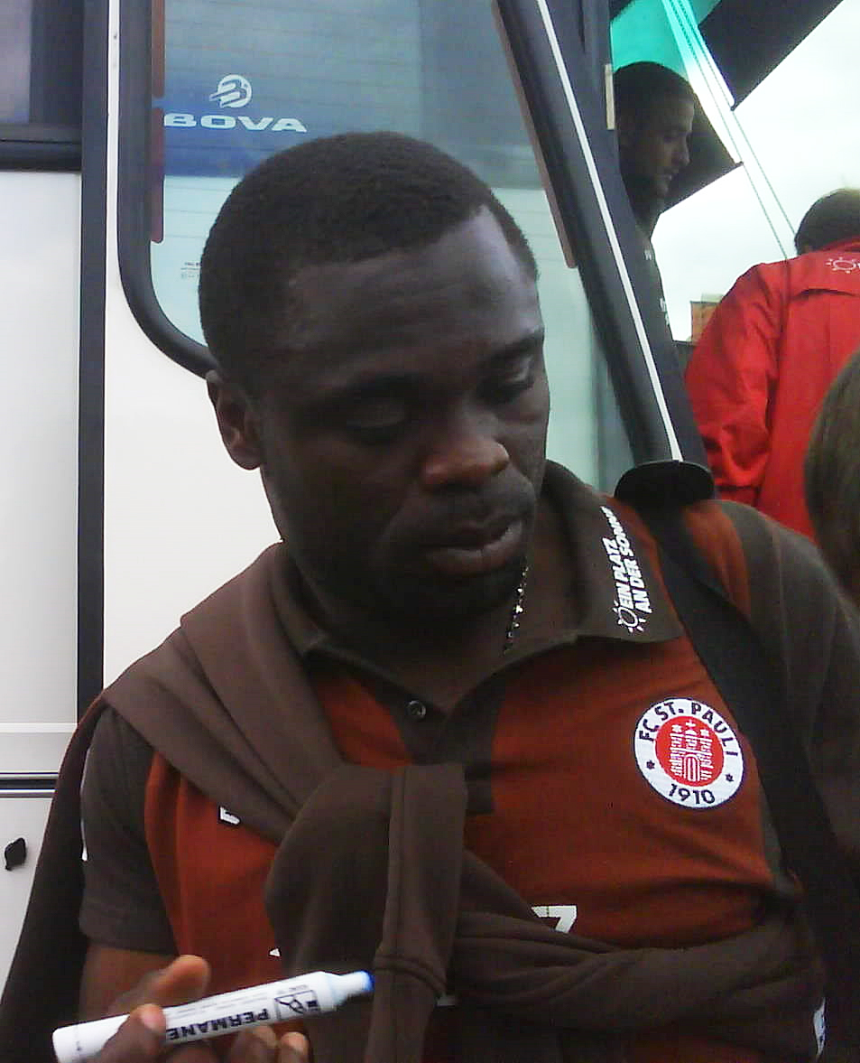 Gerald Asamoah from FC St. Pauli at the team bus in Göttingen.